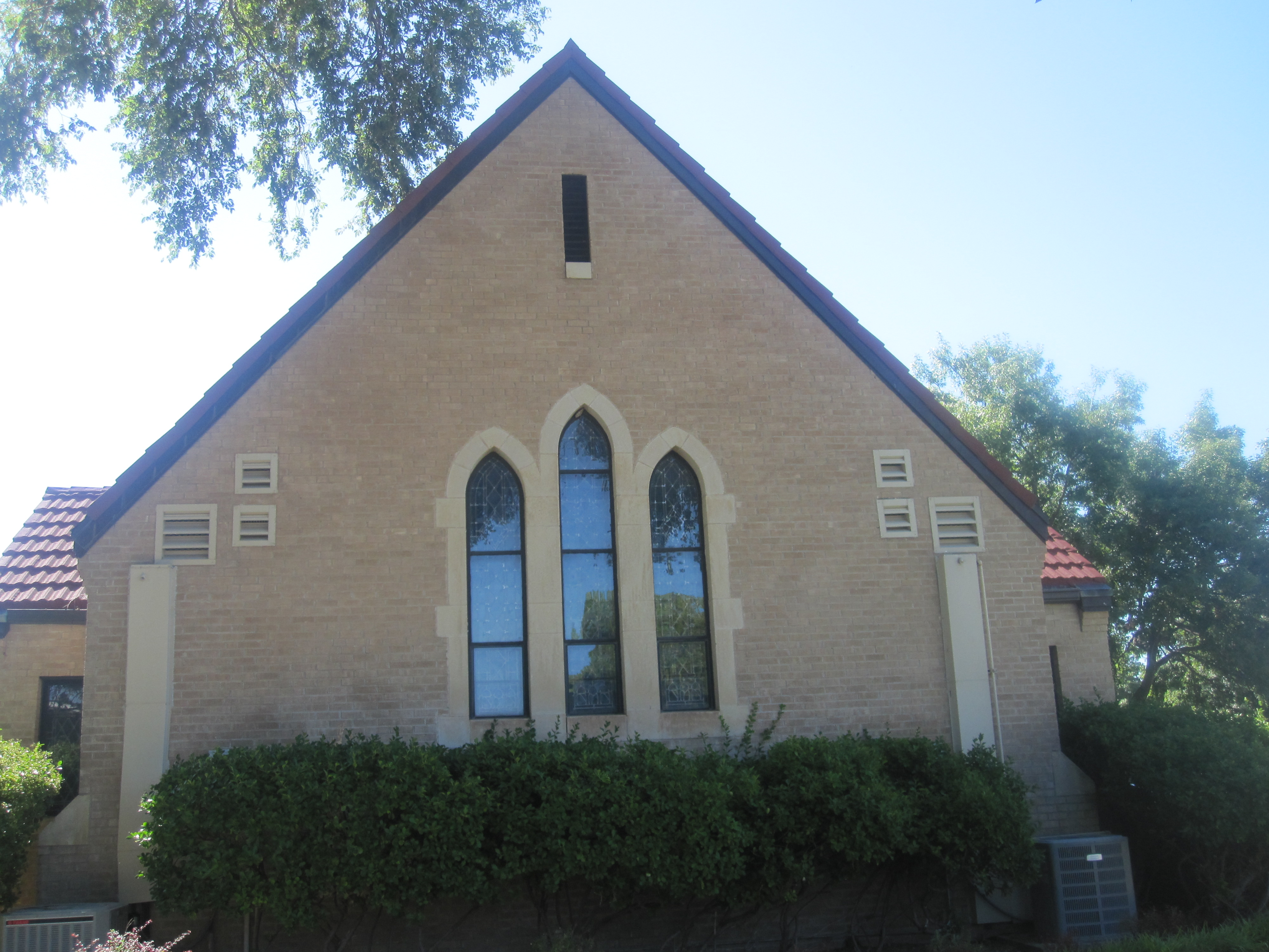 I took photo with Canon camera in Canadian, TX.